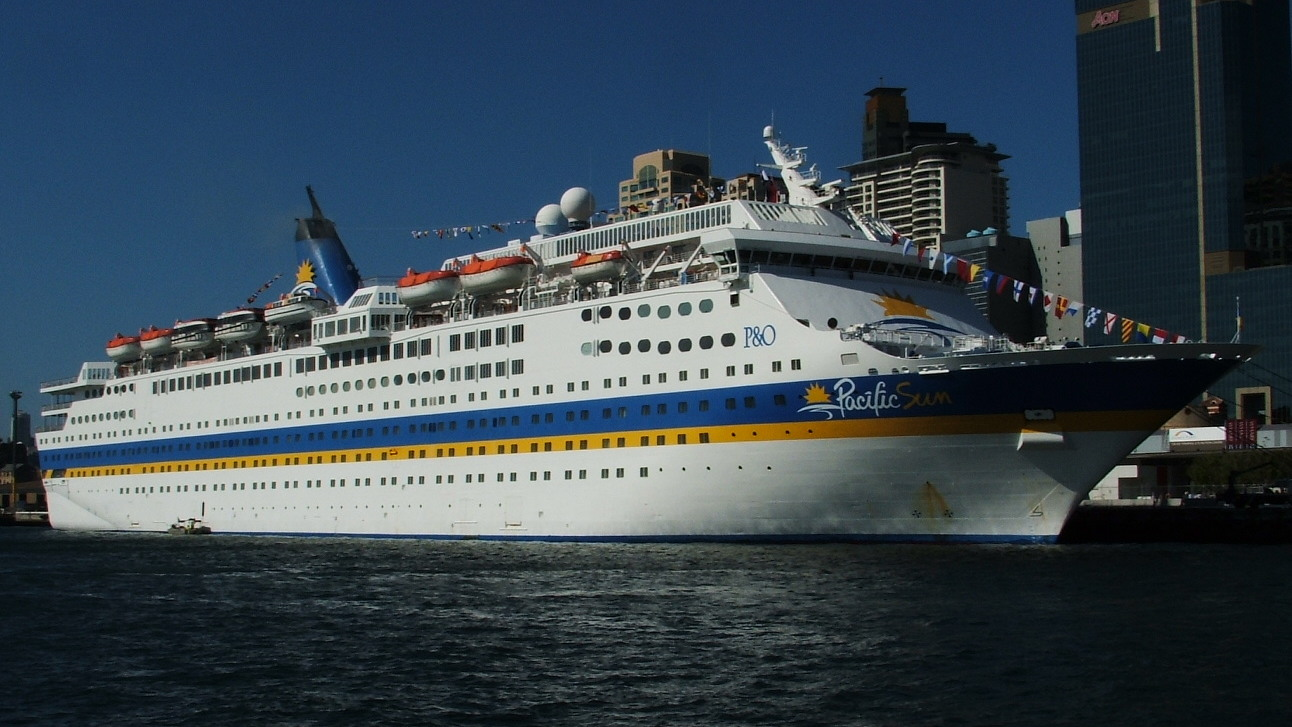 Photograph of cruise ship Pacific Sun, docked at Darling Harbour, Sydney, Australia